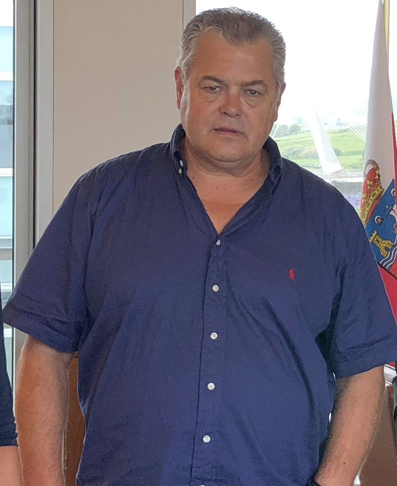 El alcalde de Santa Cruz de Bezana, Joaquín Gómez.